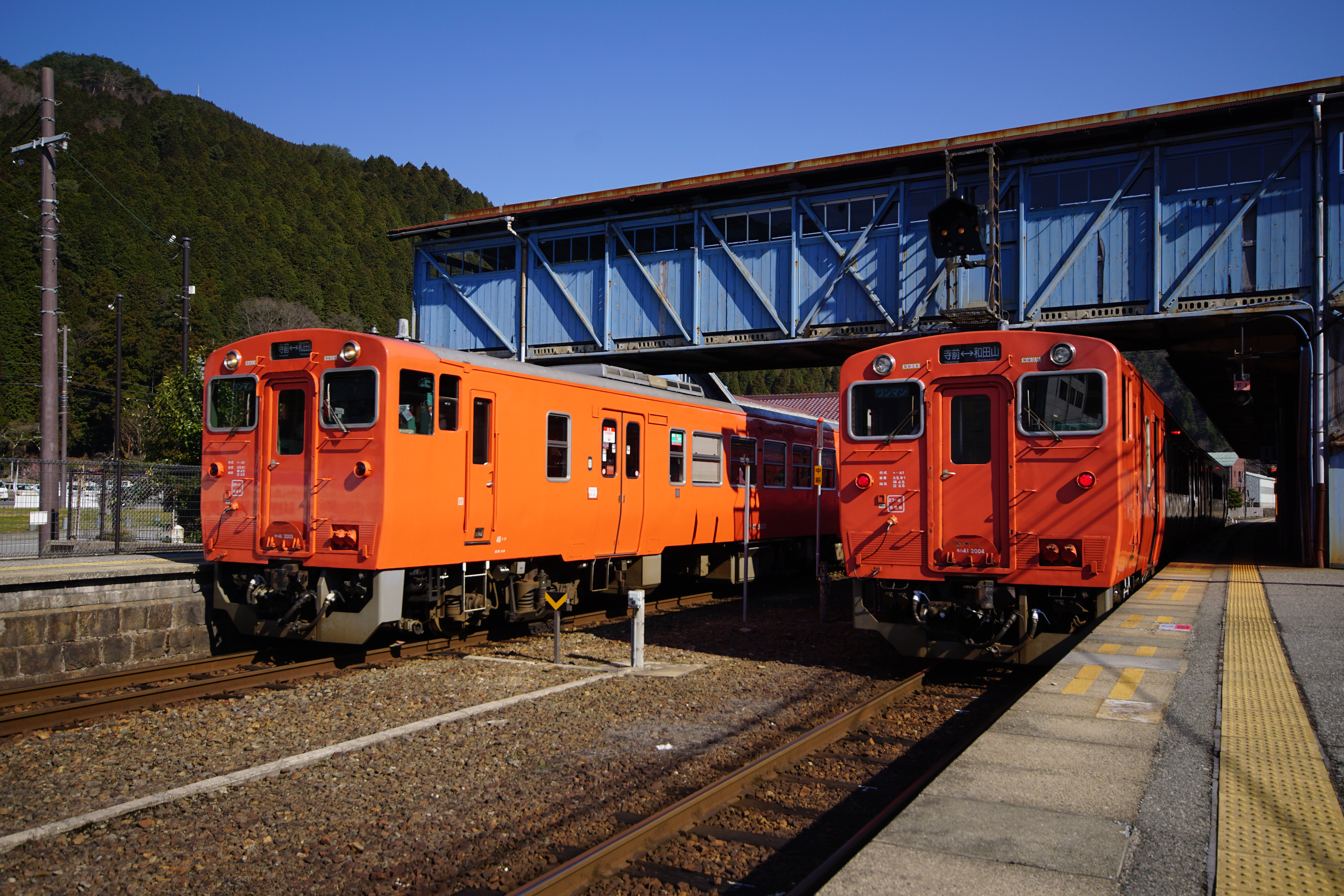 Trains at Ikuno Station